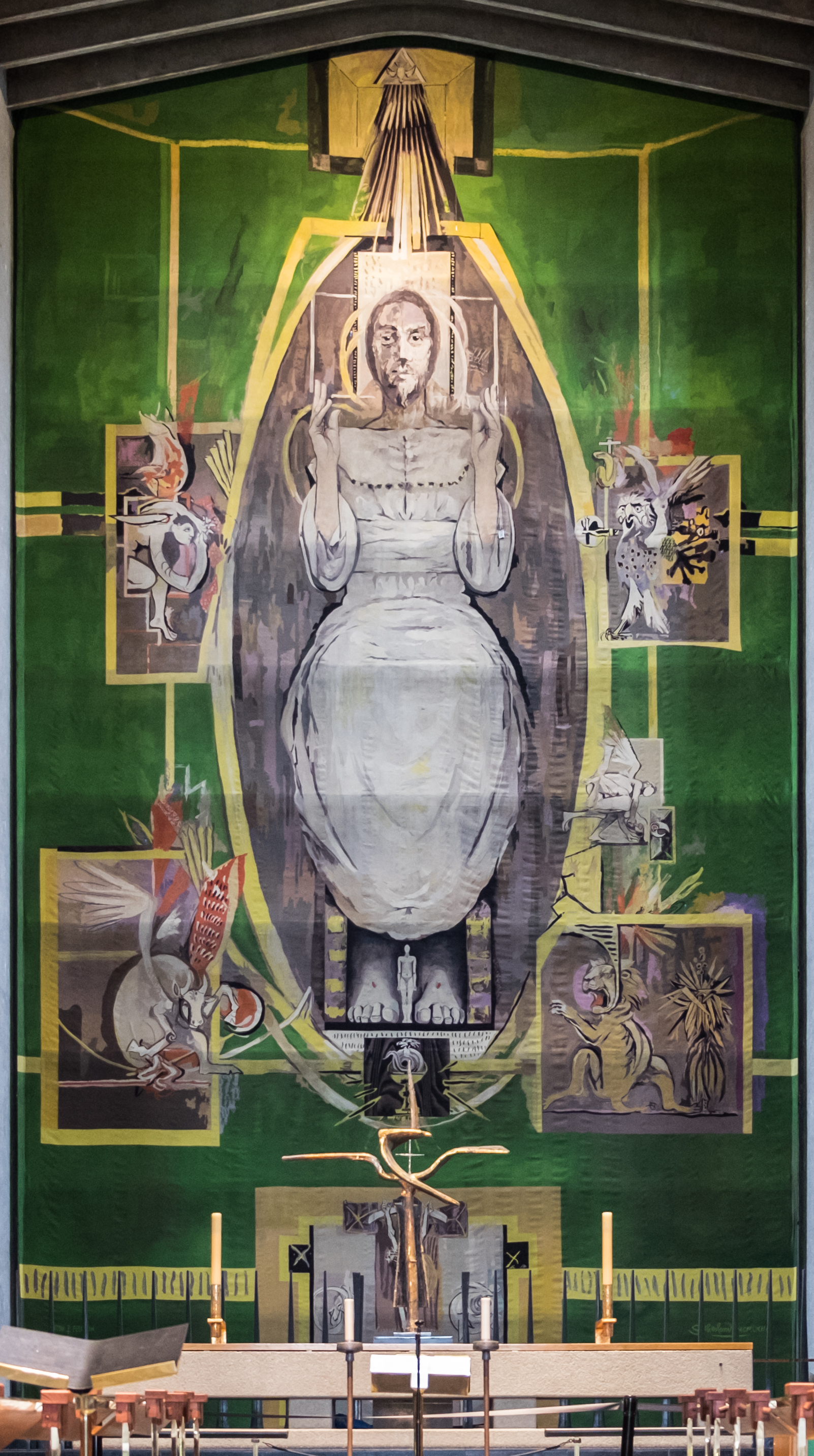 The Christ in Glory tapestry by Graham Sutherland, installed in Coventry Cathedral in 1962. The tapestry, which measures 75 feet by 38 feet (23 m x 11.5 m), is said to be the largest one-piece tapestry in the world.[1]